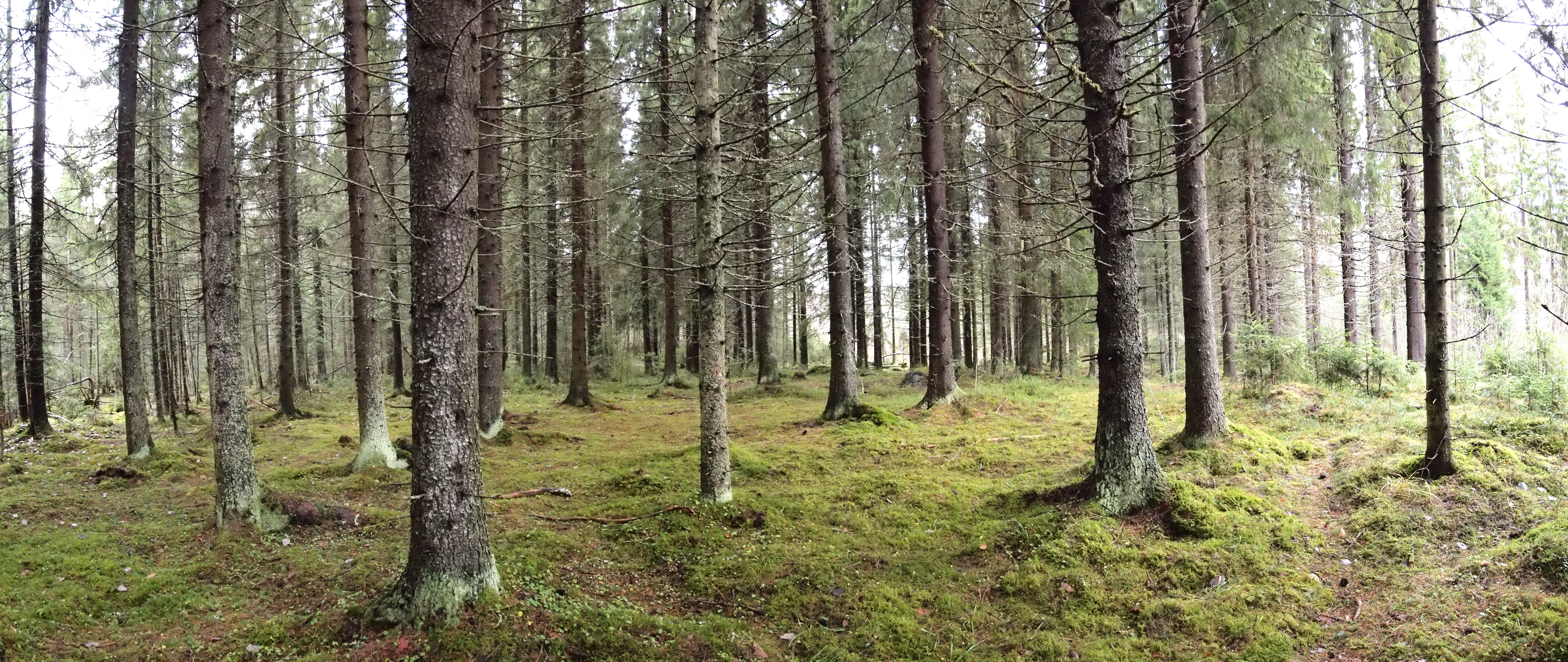 Forest in Haukkamäki district, Jyväskylä. The forest is situated between the streets Nuutinkorventie and Koppalankaari. This photograph was taken with an Olympus E-PL1.